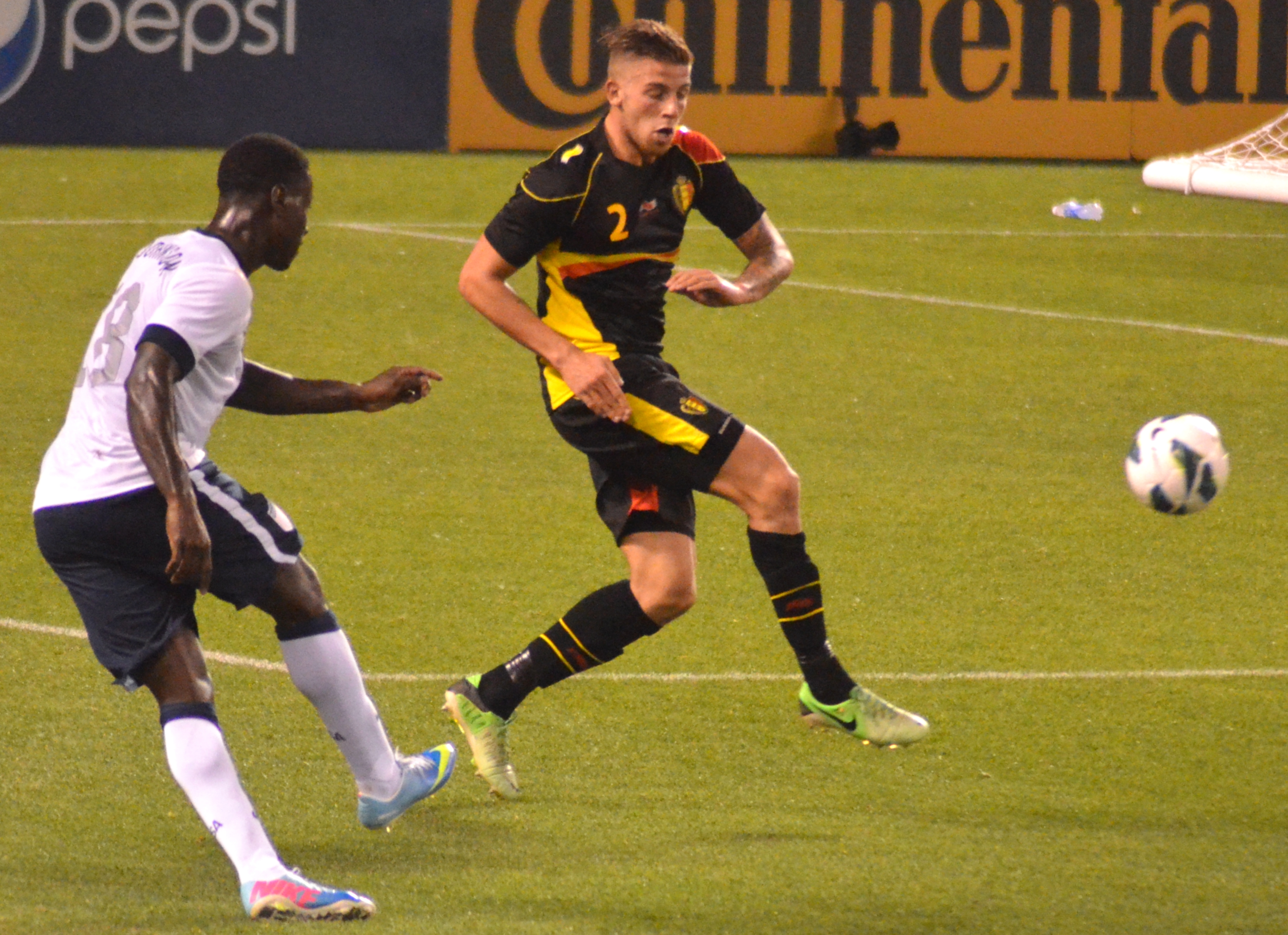 FirstEnergy Stadium Home of the Cleveland Browns